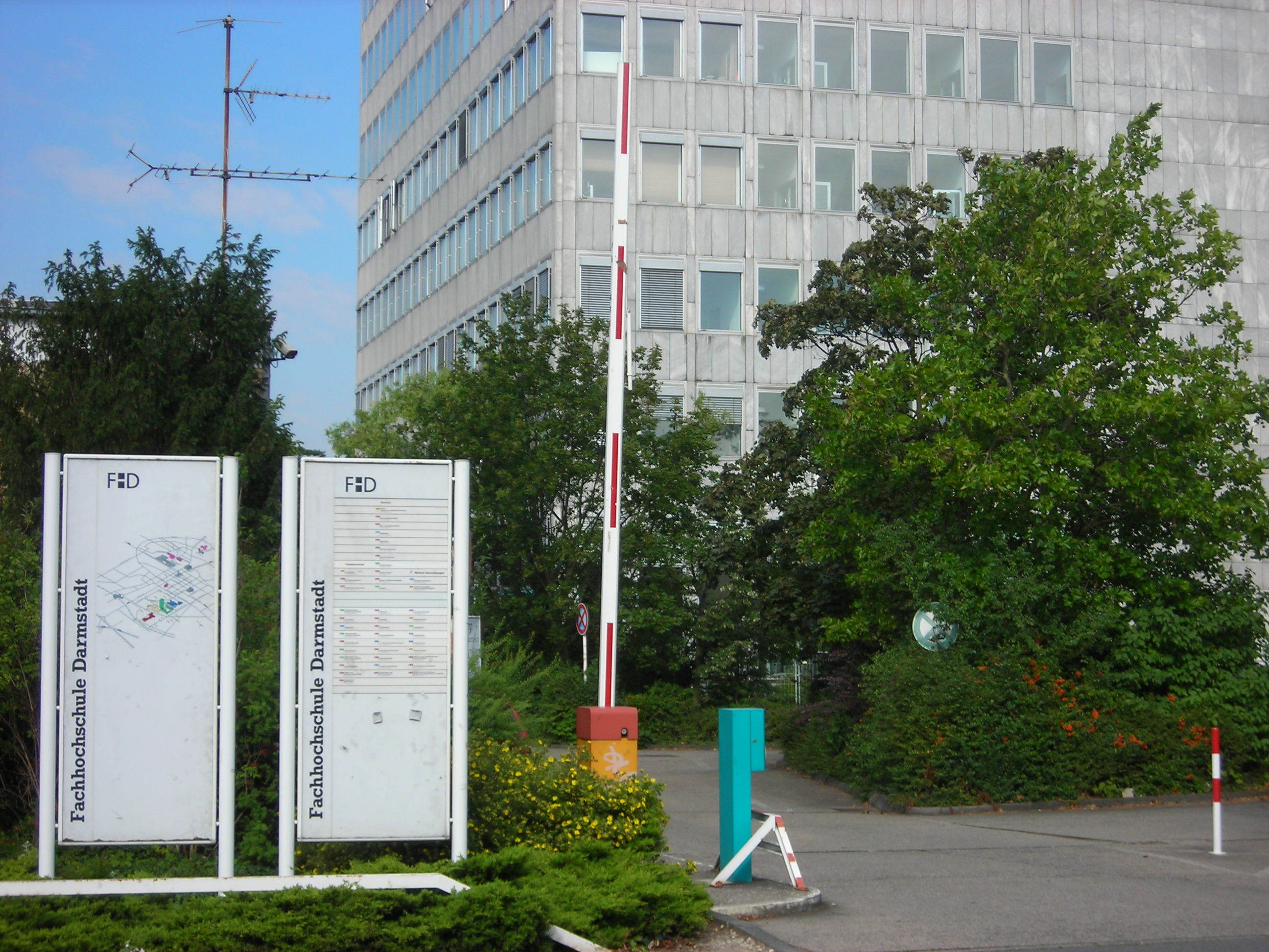 author : vita